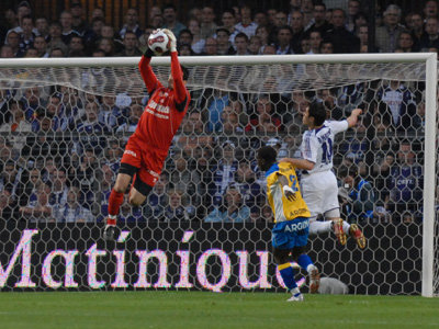 taking a cross